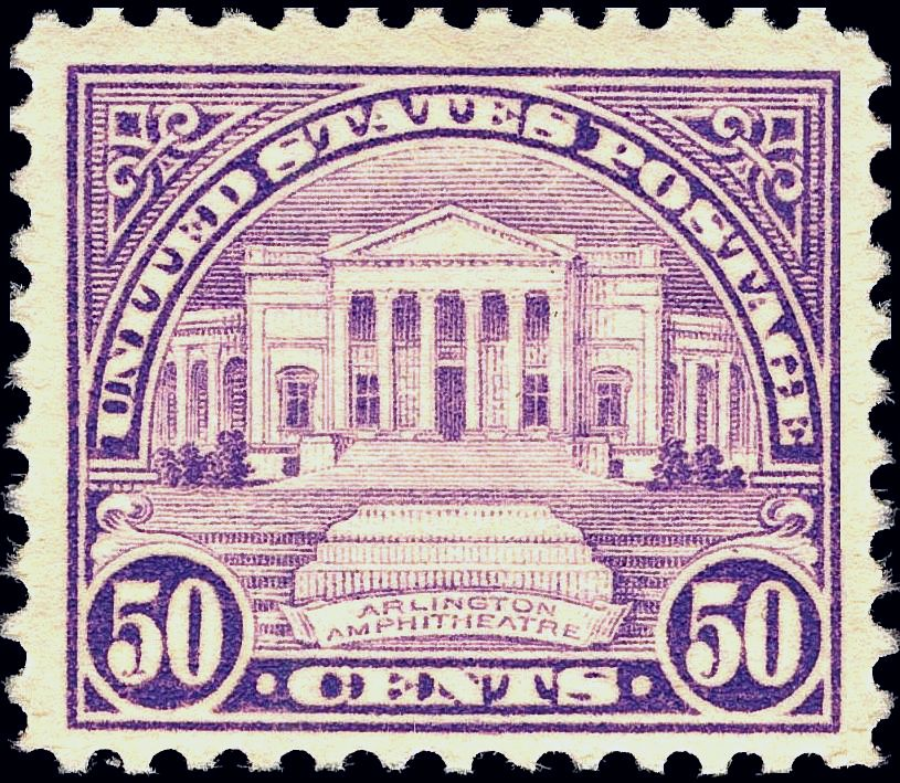 US Postage stamp, Amphatheater issue, 1922, 50c, Lilac